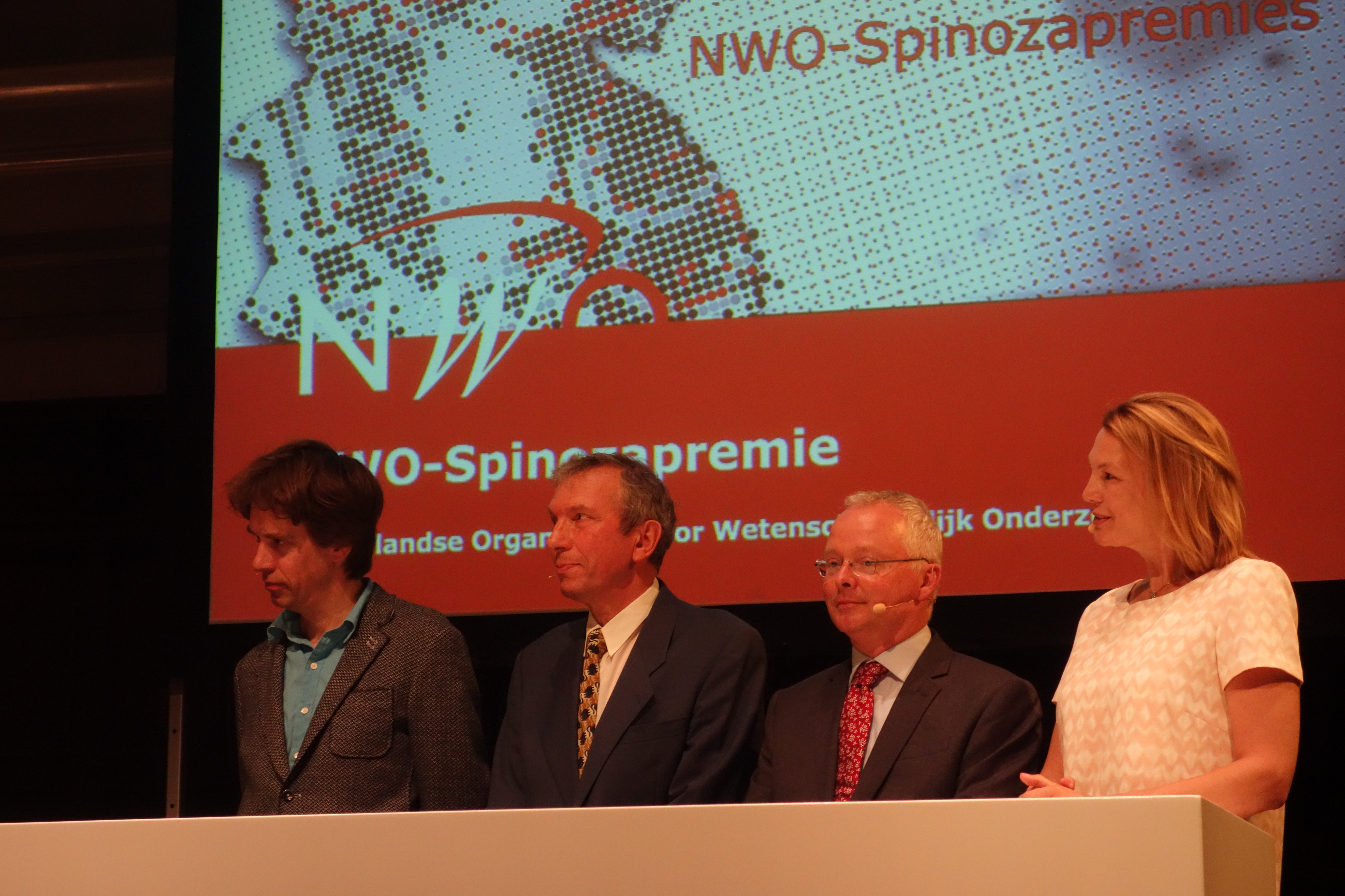 Spinoza Prize 2017: (left to right) Alexander van Oudenaarden, Michèl Orrit, Albert Heck and Eveline Crone (Amsterdam, June 2017)